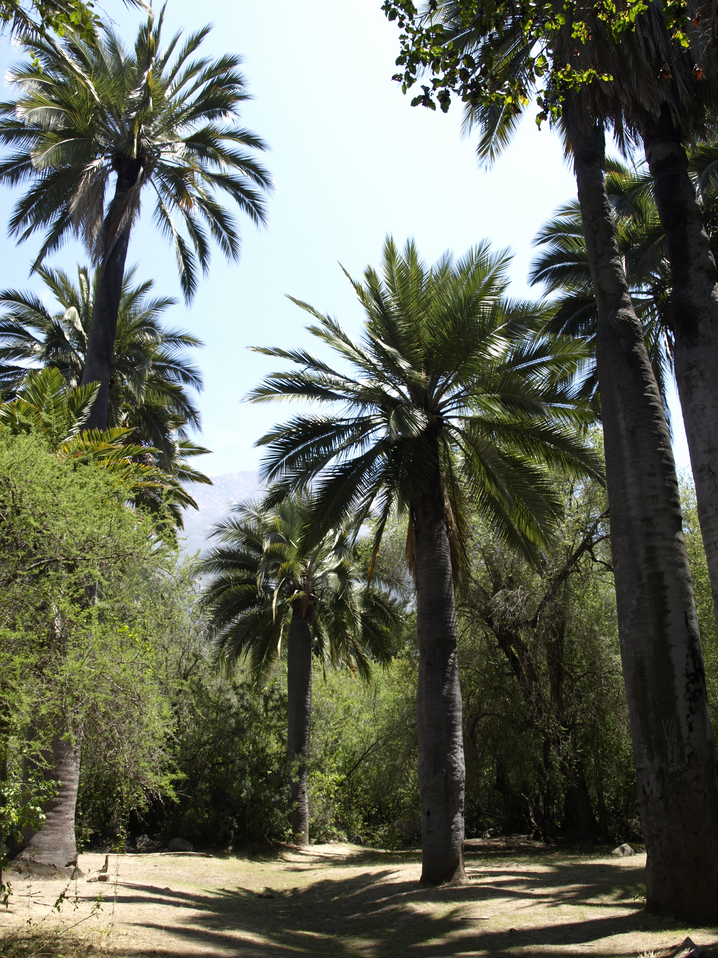 Scott is in Chile!!! Parque Nacional La Campana, Chile.